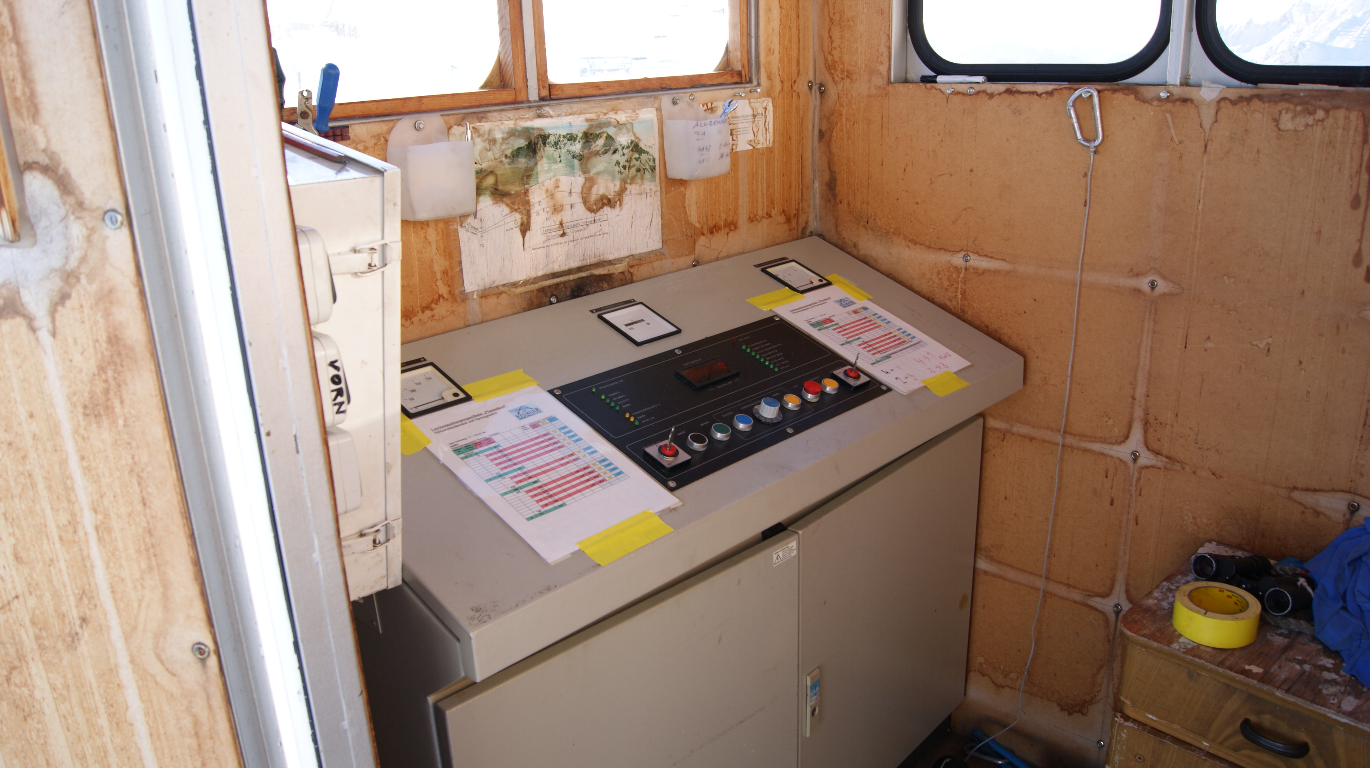 Avalanche blasting ropeway Valfagehr in Rauz, Kloesterle, Voralberg, Austria. Cab and operating console.